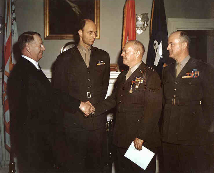 Lieutenant General Thomas Holcomb, USMC (second from right) receives the congratulations of Secretary of the Navy Frank Knox (at left), upon being presented with the Distinguished Service Medal in recognition of his service as Commandant of the Marine Corps from 1936 to 1943. The presentation took place in Secretary Knox's office on April 12, 1944. Looking on are Lieutenant General Alexander A. Vandegrift, Holcomb's successor as Commandant of the Marine Corps (right) and Colonel James Roosevelt, the son of President Franklin Delano Roosevelt.